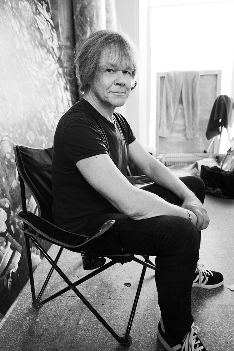 Artist Markus Heikkerö in his studio 2013